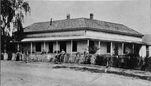 Lopez Station, circa 1860s. In the early 1860s, Geronimo and Catalina Lopez bought about forty acres of land north of the San Fernando Mission. On these lands they built the Lopez Station. The station served as the Valley's first stage coach line station. The station also housed the Valley's first post office, English speaking school, and general store. Today, the Lopez Station and the land surrounding it is covered by the Van Norman Lake and Dam. Black and white photograph, 4.5 x 6.5 in.